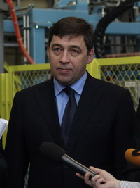 Evgeniy Kuivashev on the opening of a new copper electrolysis plant on Uralelectromed